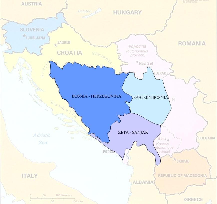 Greater_Bosnia